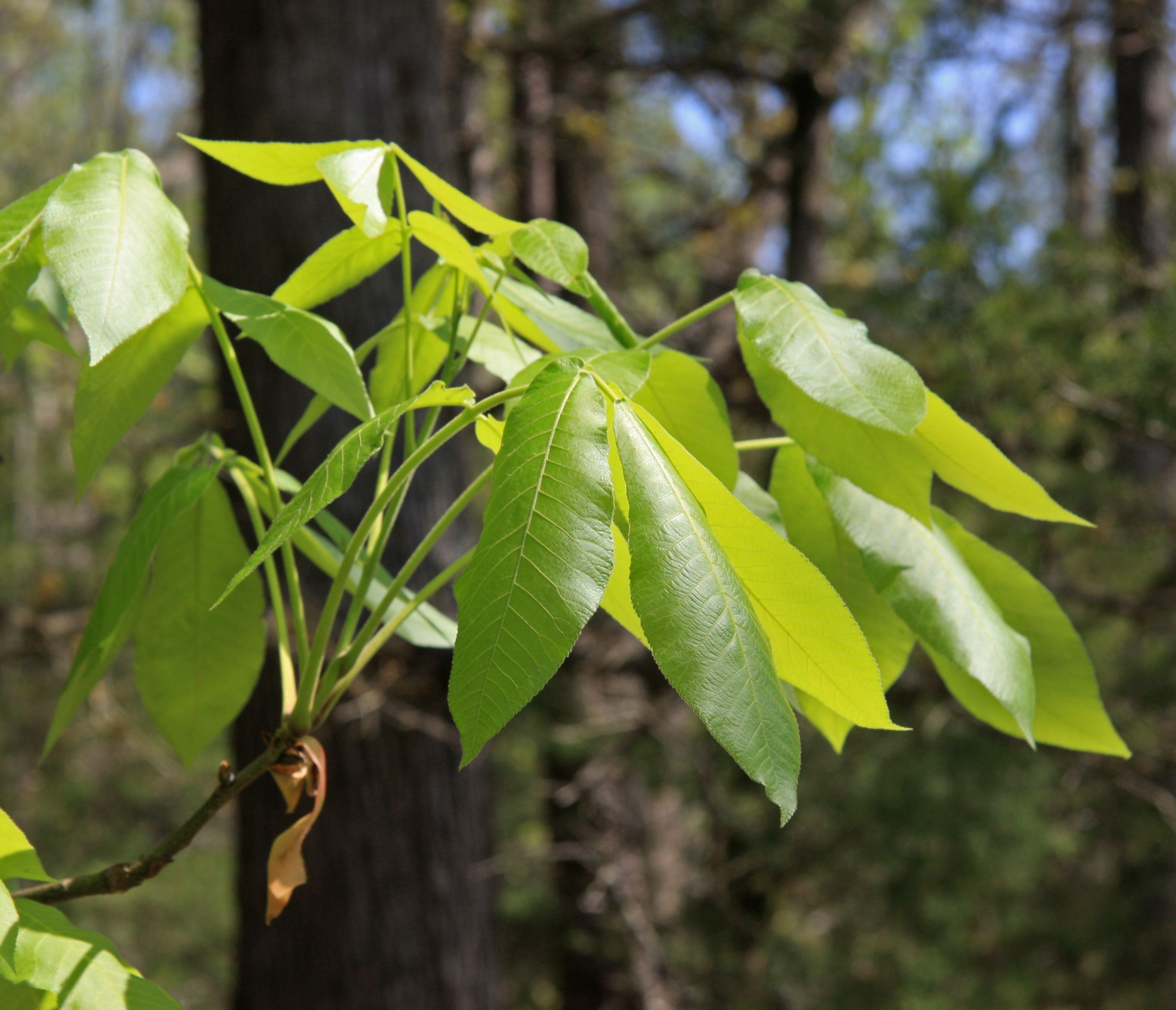 Shagbark hickory (Carya ovata), Duke Forest Korstian Division, Durham, North Carolina USA.